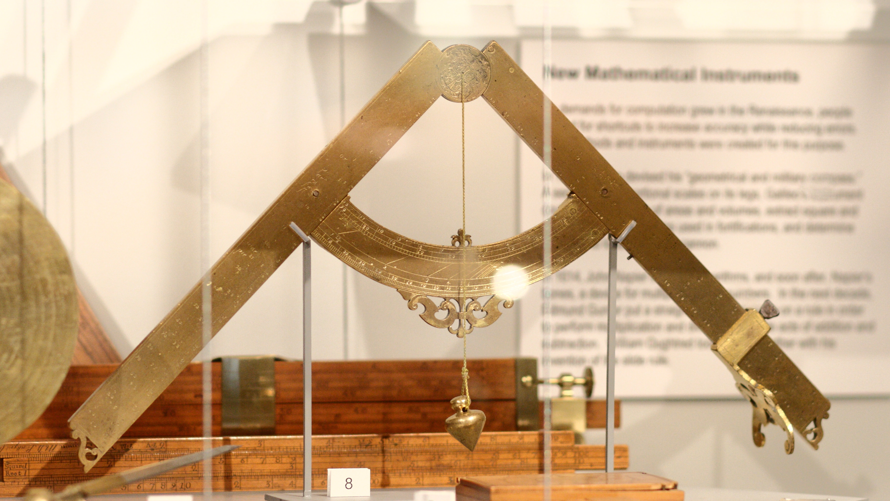 A geometrical and military compass designed by Galileo Galilei, described in Le operazioni del compasso geometrico et militare (1606). It is thought to have been made by Marc'Antonio Mazzoleni circa 1604. This compass is shown with a quadrant, which fixes the two sides of the compass at a 90-degree angle, prohibiting the compass from opening and closing but allowing it to measure angle.